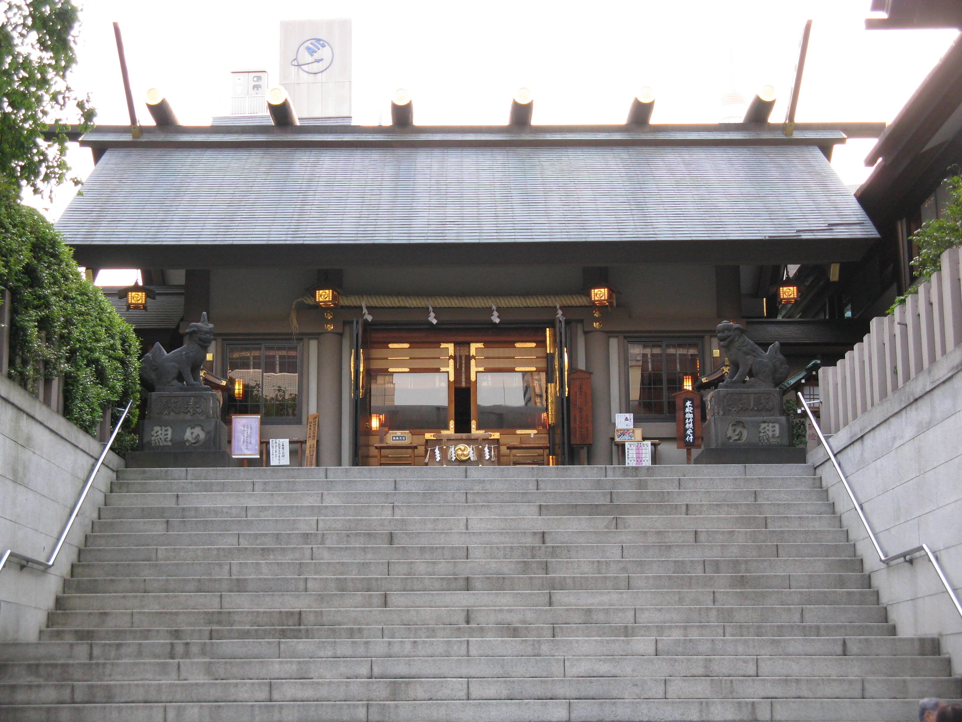 Shiba Daijingū Shrine in Minato, Tokyo